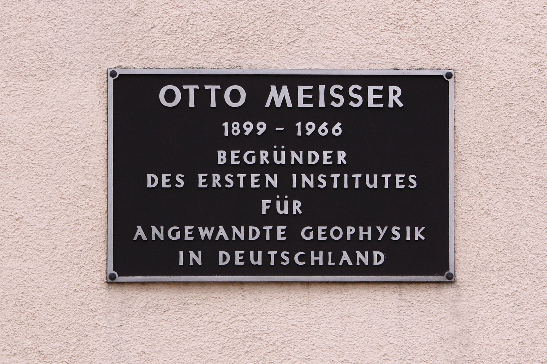 Otto Meißer, commemorative plaque in Freiberg